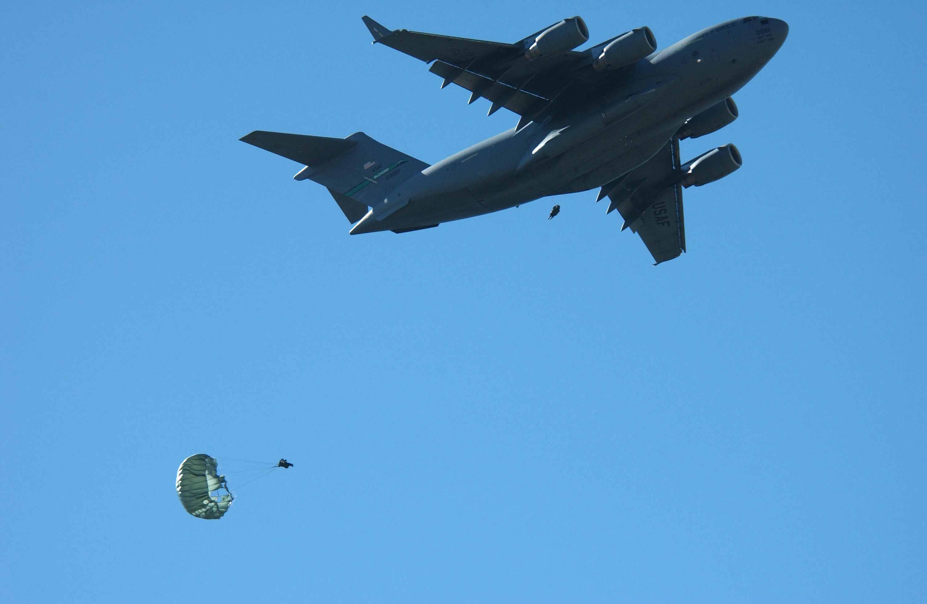 Members of the U.S. Air Force's 819th Redhorse Squadron, Airborne Flight jump from a C-17 Globemaster III aircraft onto Malmstrom Air Force Base, Mont., on Aug. 27, 2005.